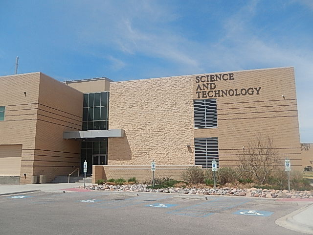 I took photo of Science and Technology Building at the University of Texas of the Permian Basin in Odessa, TX, with Nikon camera.